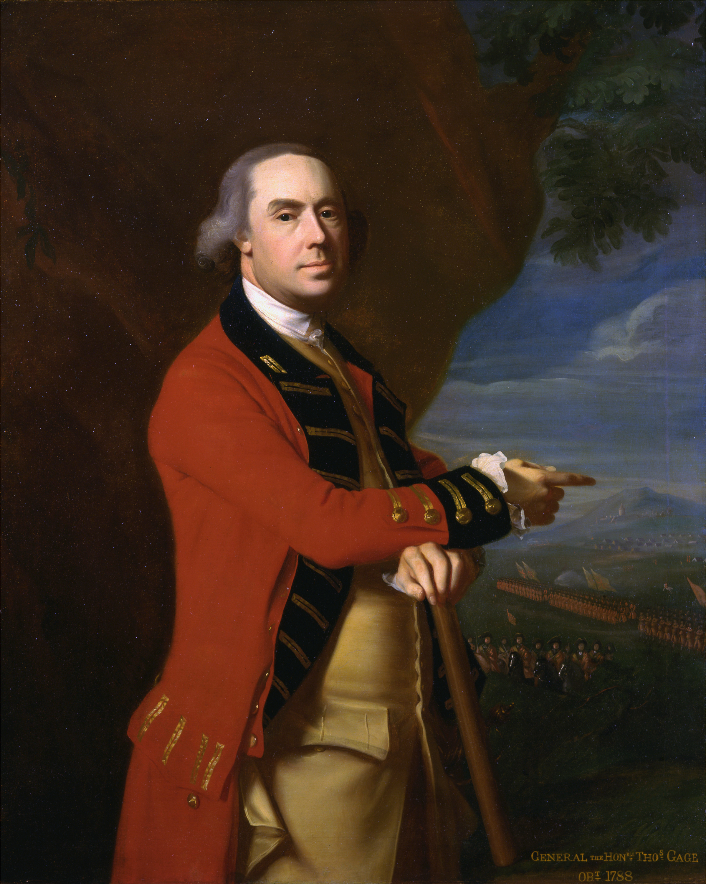 General Thomas Gage oil on canvas 127 x 101 cm inscribed l.r.: GENERAL THE HONBLE THOS GAGE / OBI 1788